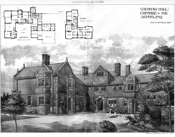 Architect's design for Colshaw Hall, Peover Superior, Cheshire, England